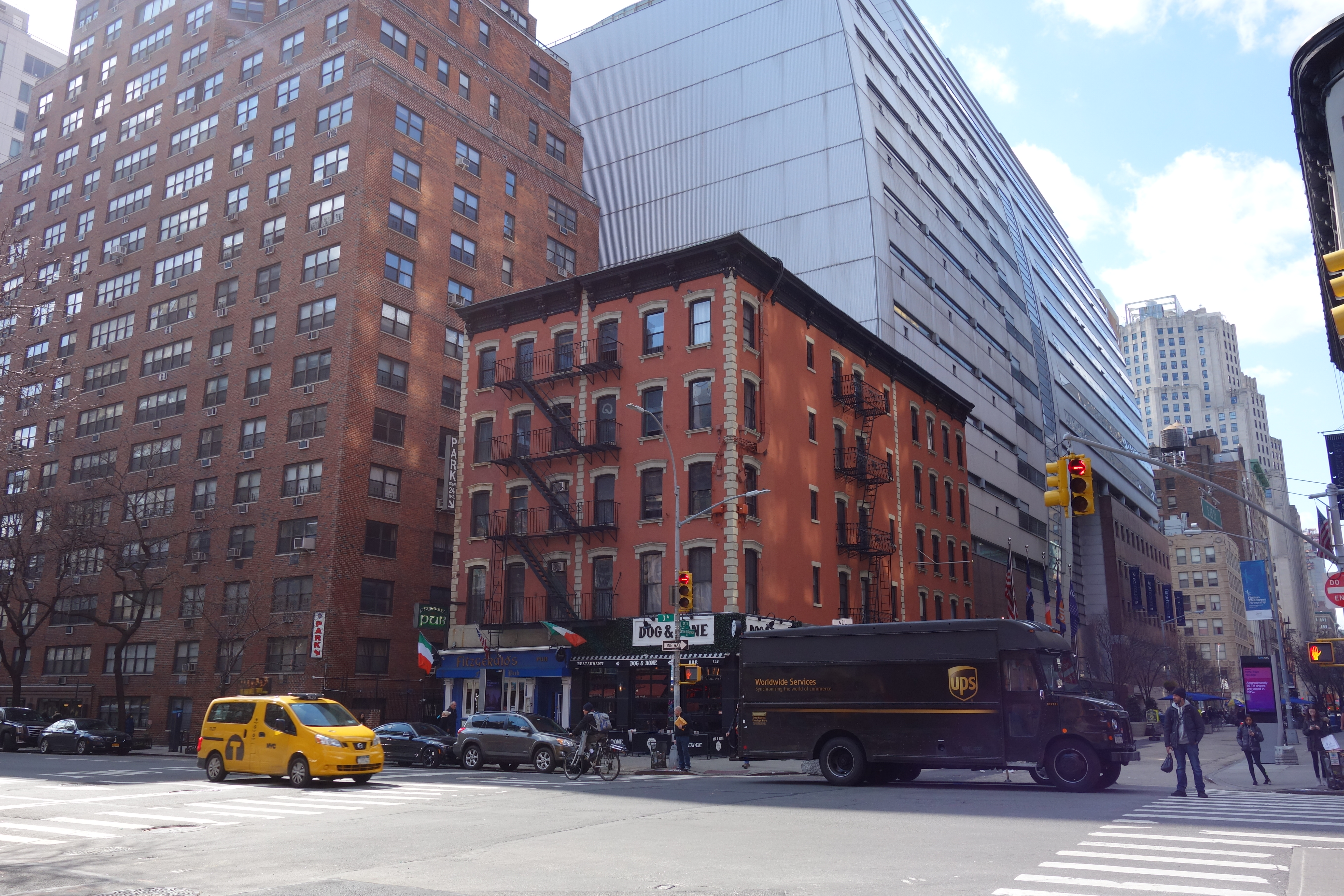 Looking southwest at Fitzgerald's Pub and Dog & Bone restaurant within 336 3rd Avenue (foreground), and Baruch College (background) at 3rd Avenue and East 25th Street in Kips Bay / Rose Hill, Manhattan. A UPS truck is (intentionally?) blocking entrance into the 25th Street Pedestrian Plaza that runs through the Baruch College campus.